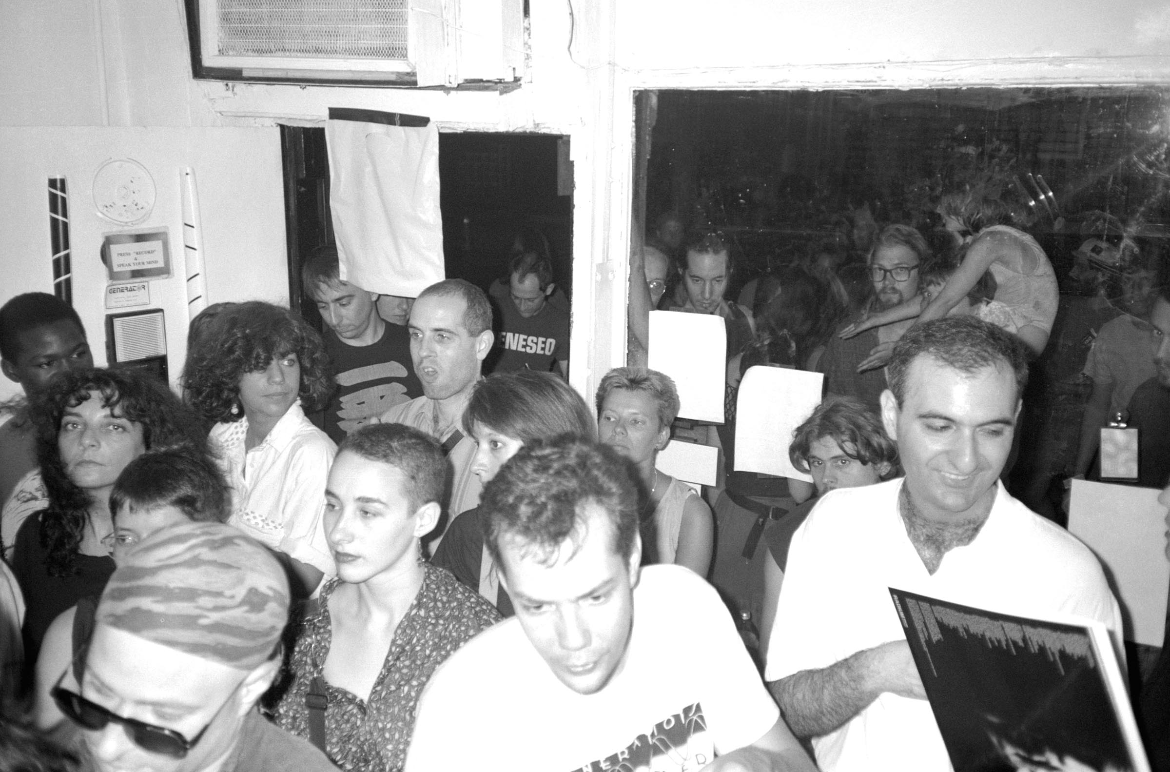 Generator Sound Art Gallery event in New York City 1990